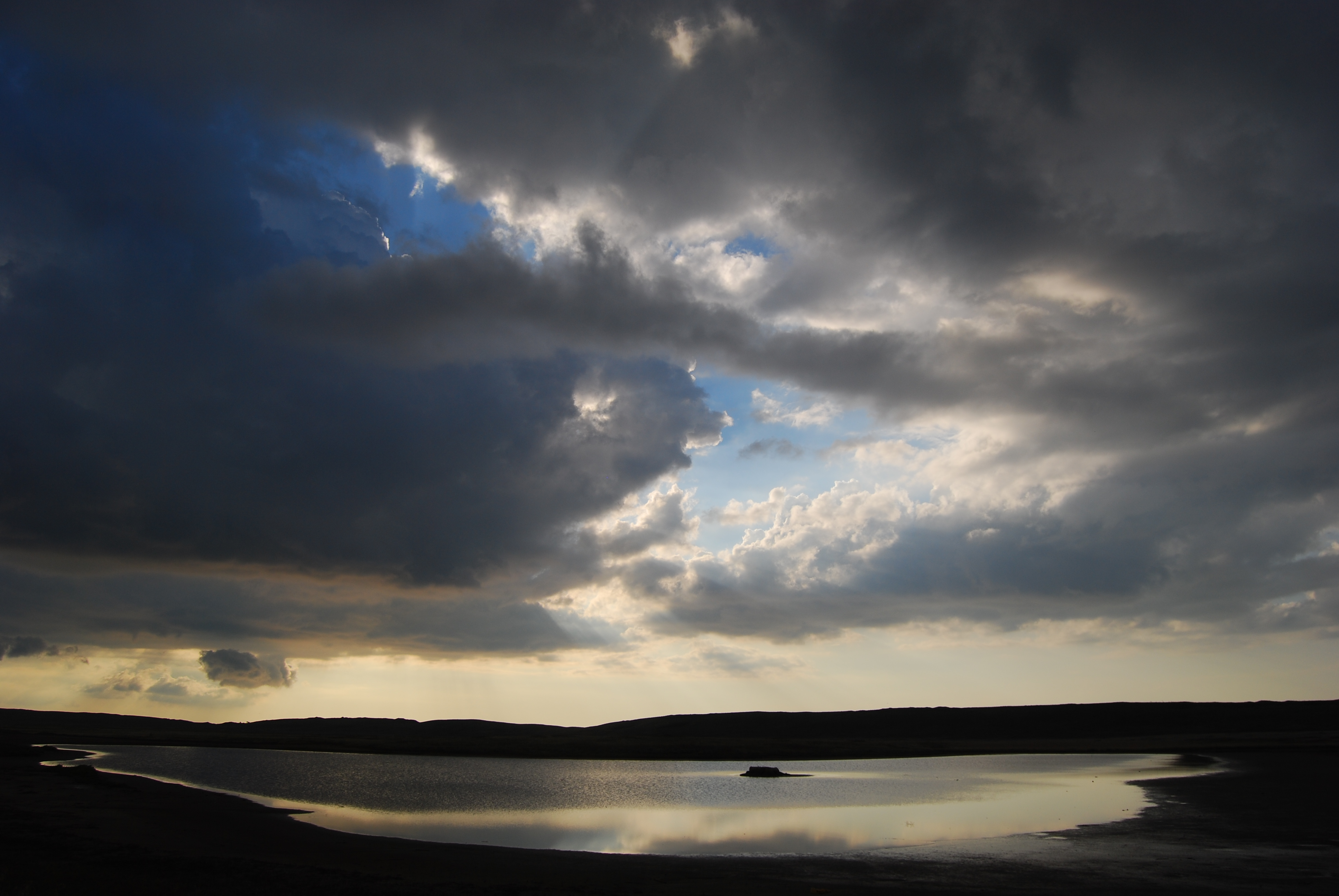 North part of Kerch Peninsula, area of mud volcaones. Crimea, Ukraine.